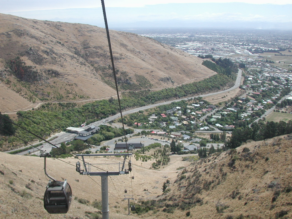 View from the Christchurch gondola down into Heathcote Valley.